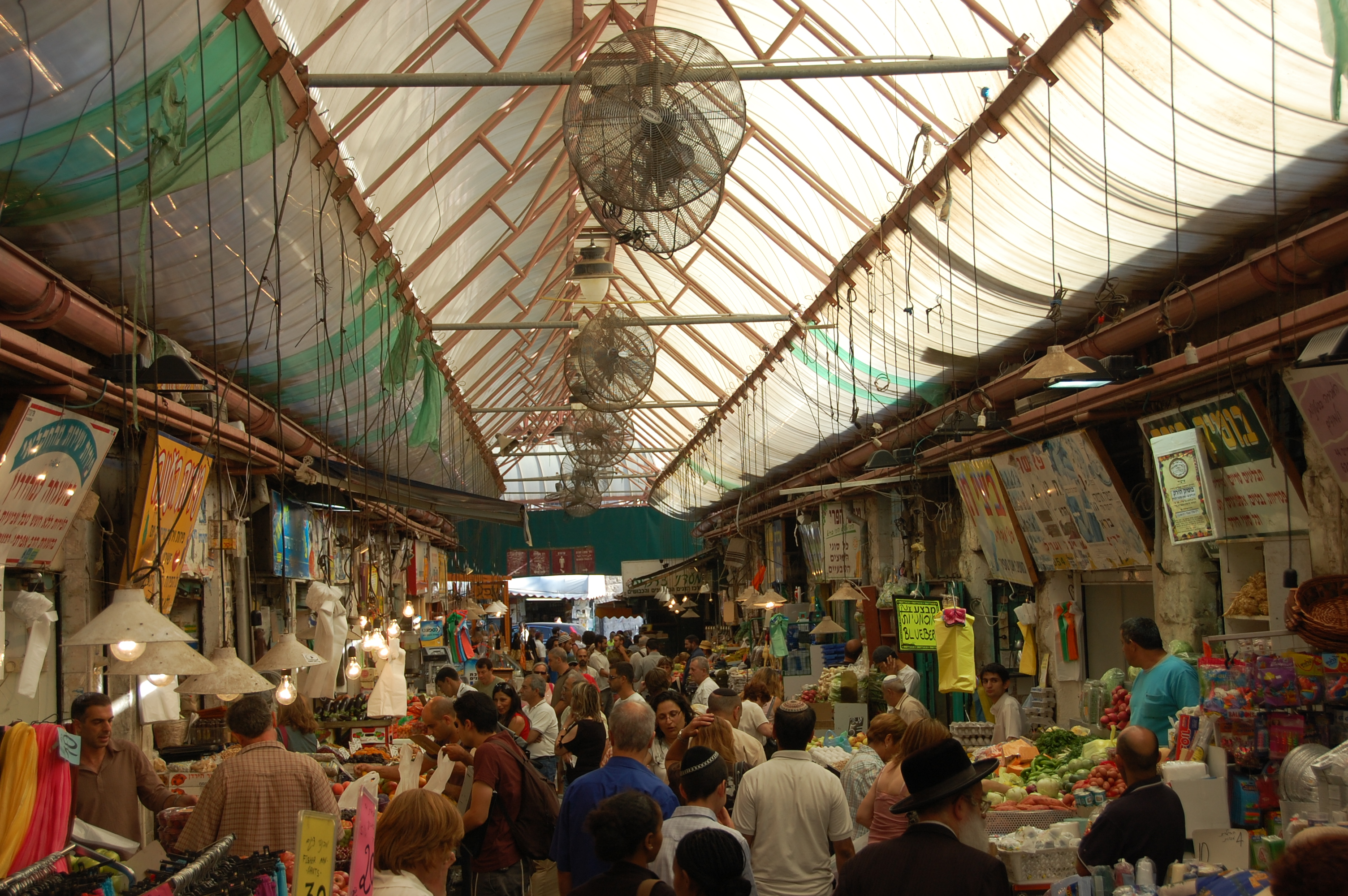 Jerusalem, Mahane Yehuda Market, Etz Hayyim street